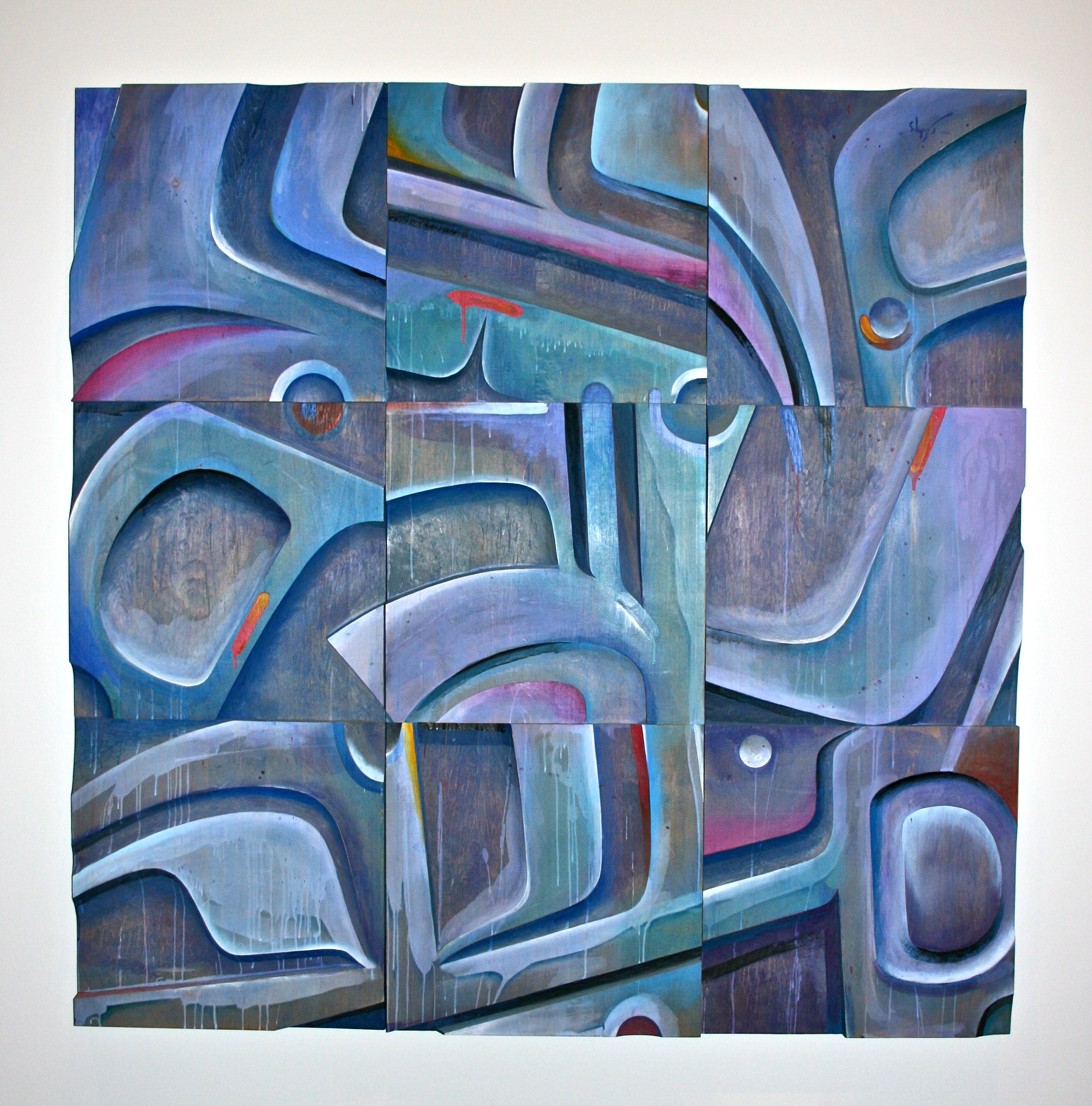 Blueberries by James Schoppert 1986